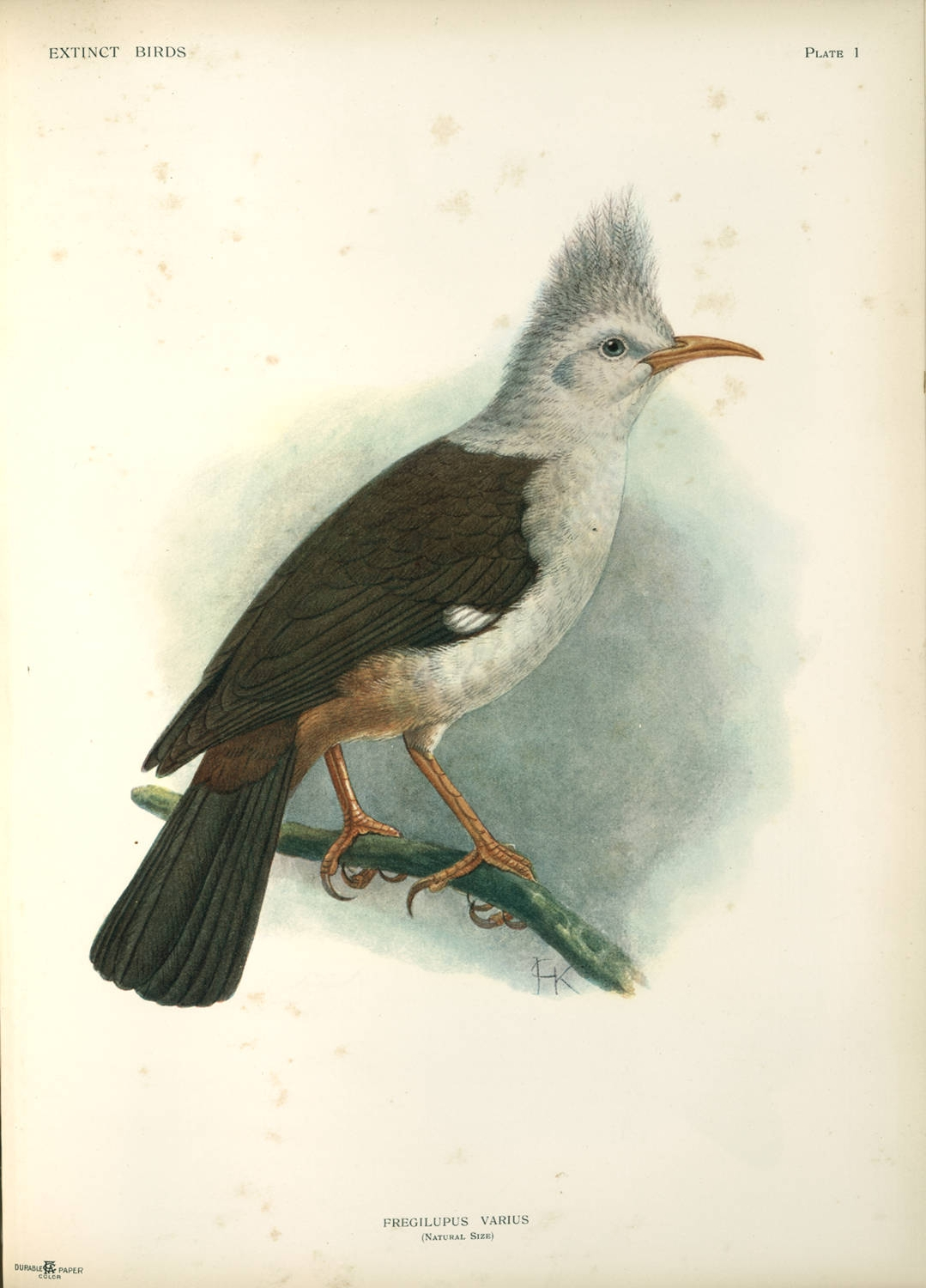 Fregilupus varius Chromolithograph (37 x 27.5 cm)